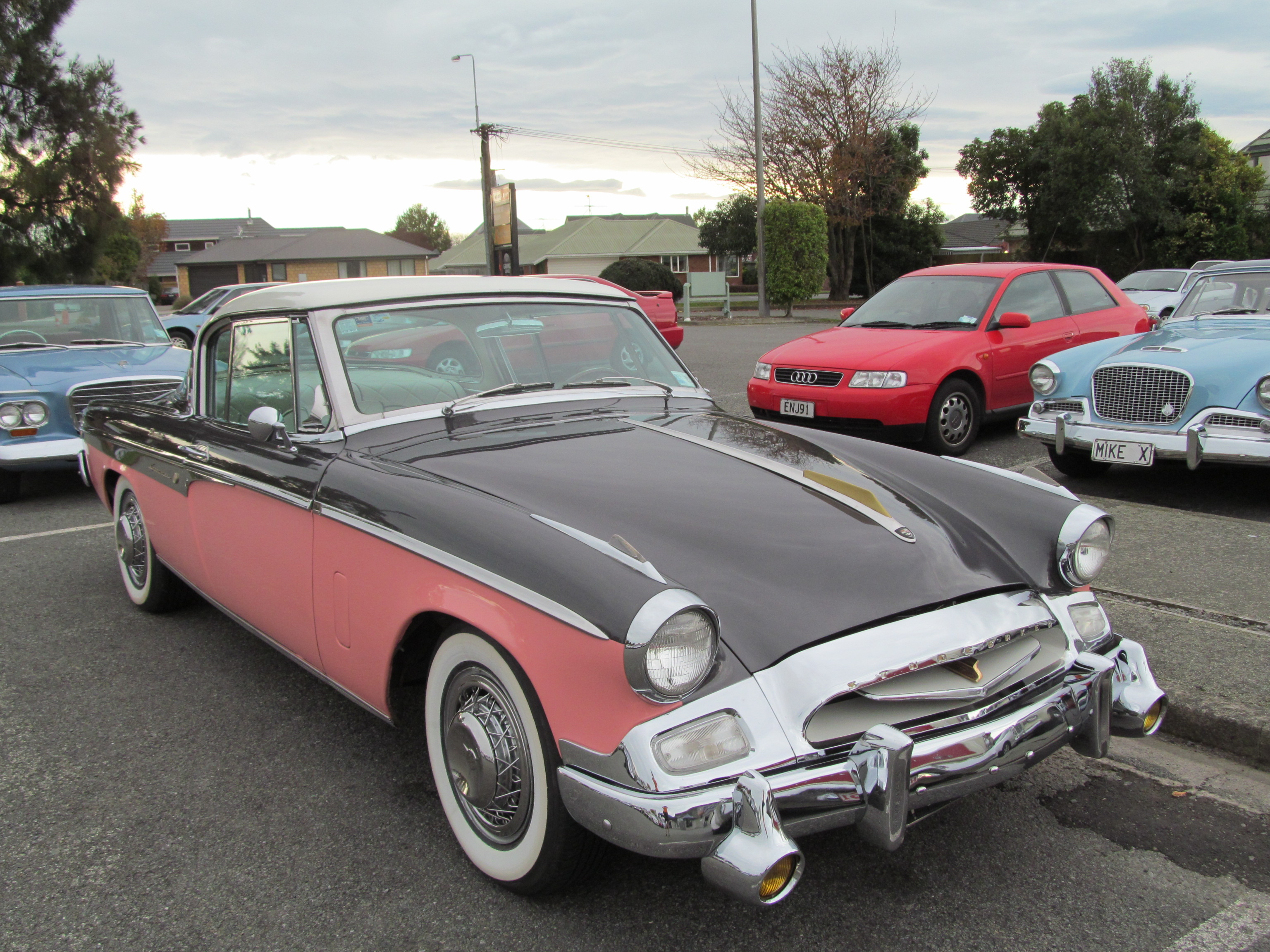 I've photographed this one before, but it's such a effortlessly classy car that I just had to get another shot.